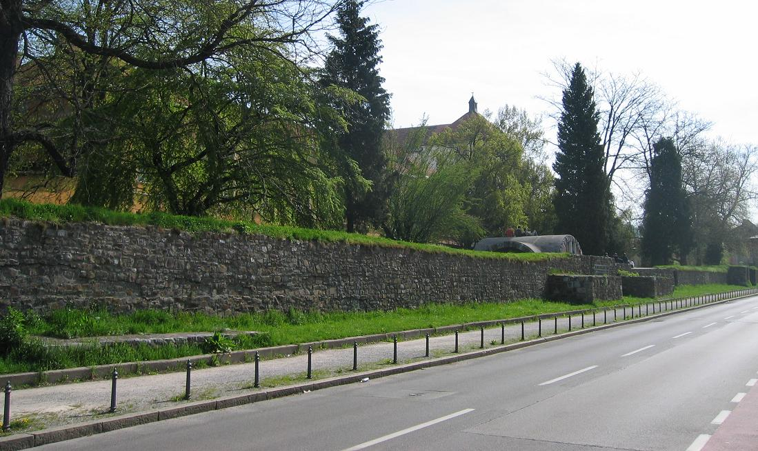 Roman wall in Ljubljana, he remains of the Ancient Roman town of Emona, at Mirje Street.